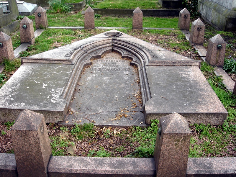 Squire Bancroft funerary monument, Brompton Cemetery, London